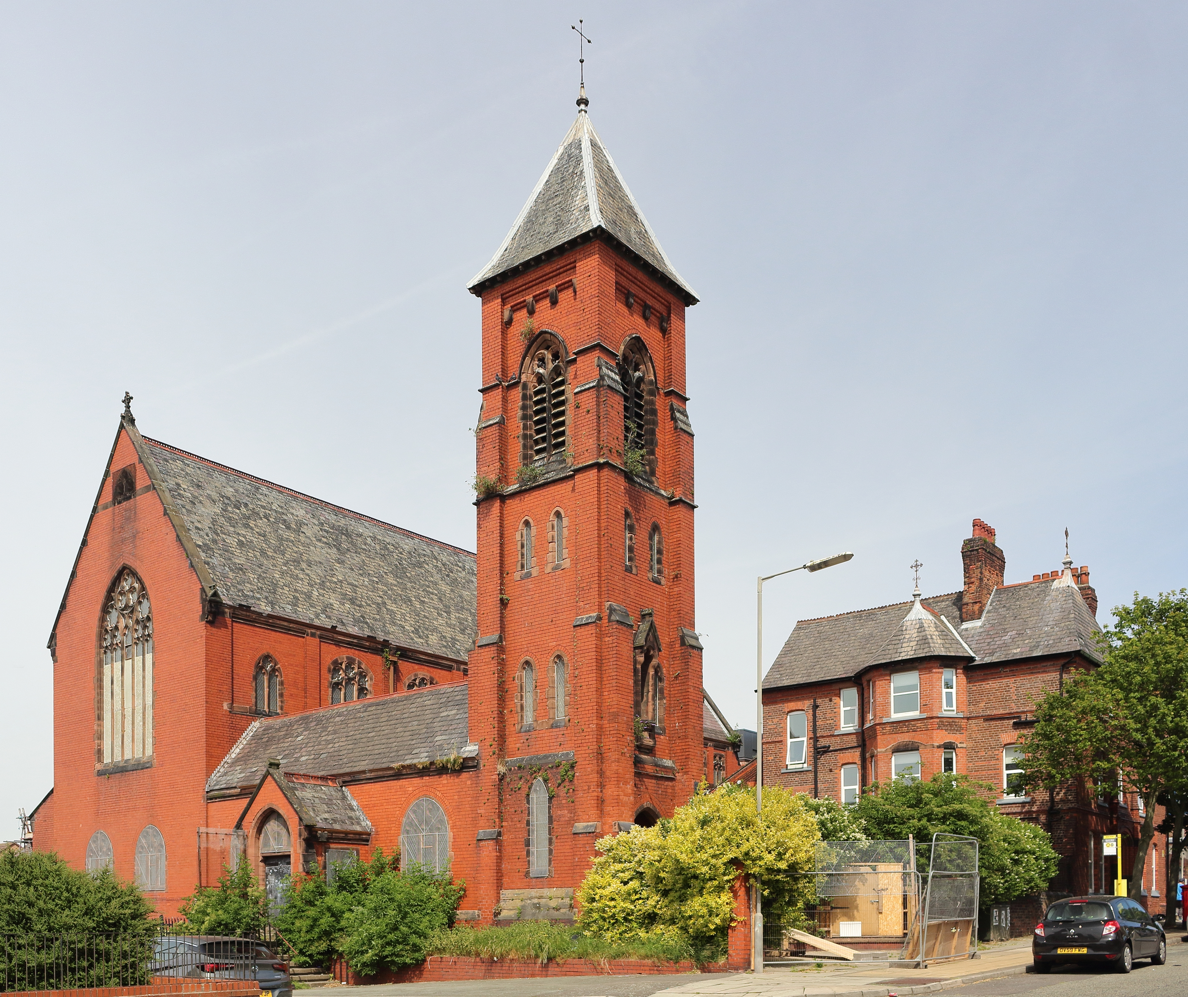 Gothic revival Roman Catholic church, 1889, in Vauxhall, Liverpool. Designed by Pugin & Pugin in Ruabon red brick. Its presbytery, now detached and sold off, is at the right.